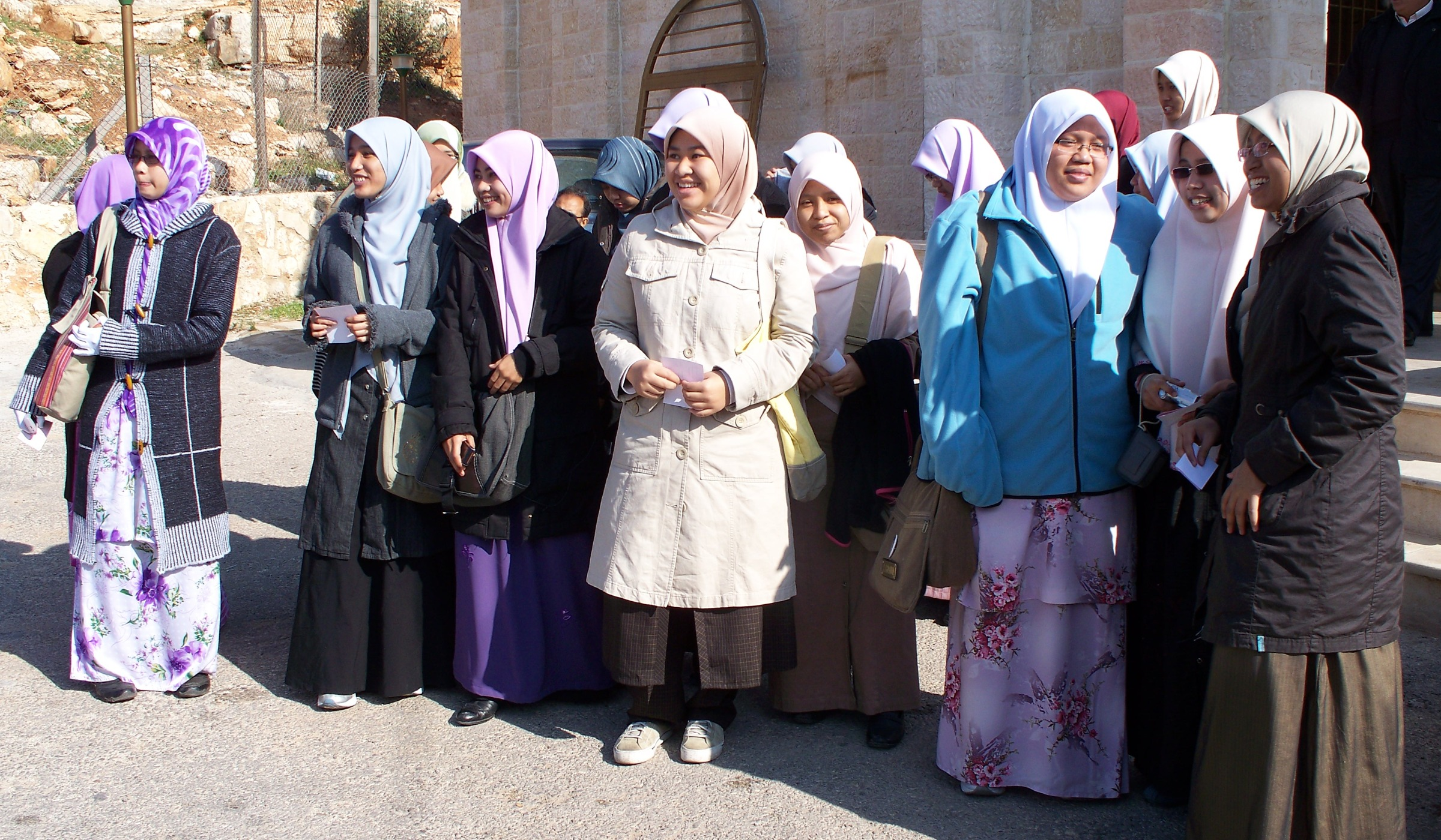 Indonesian exchange students of the Jordanian Yarmouk University.